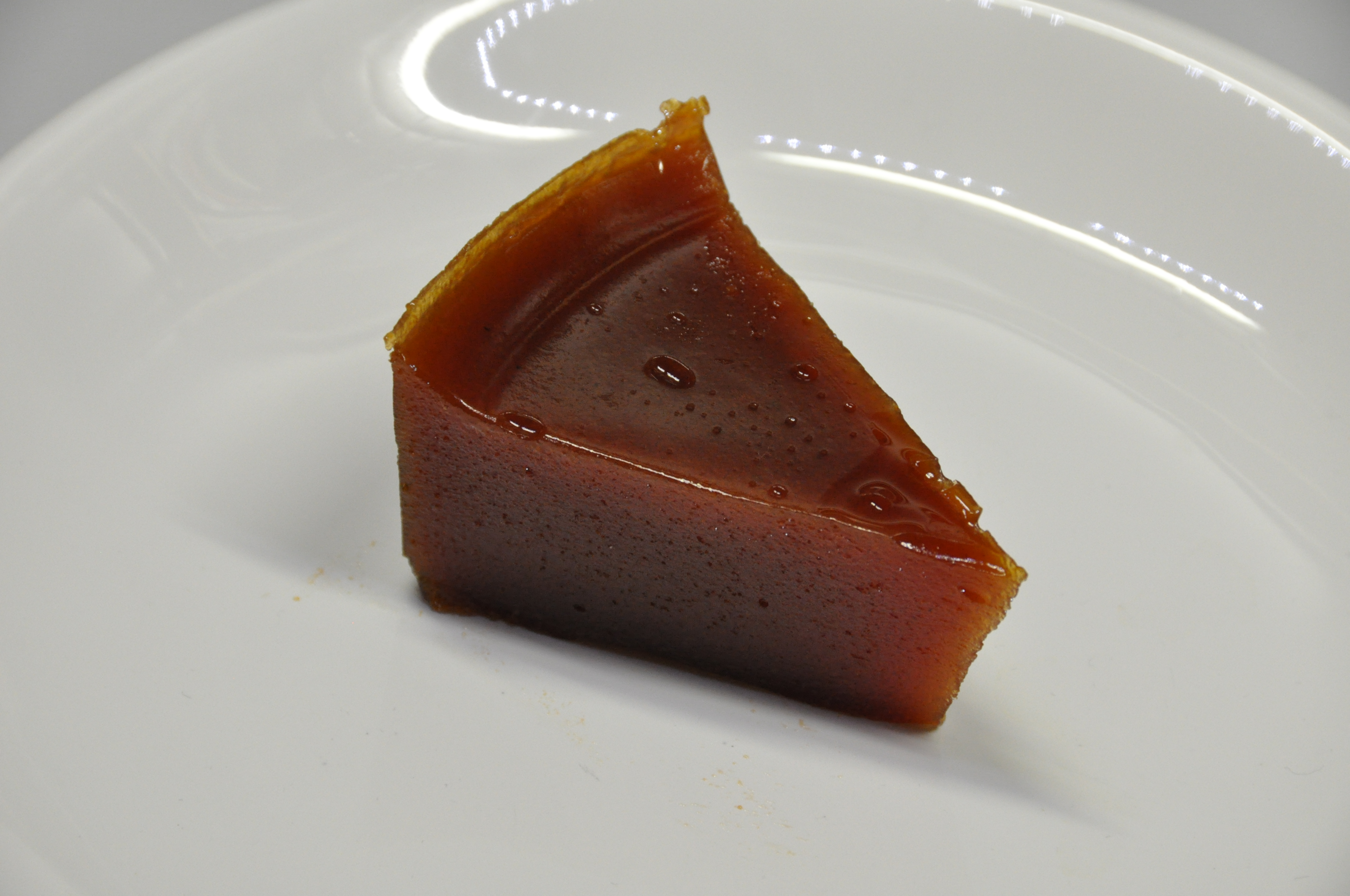 Goiabada slice